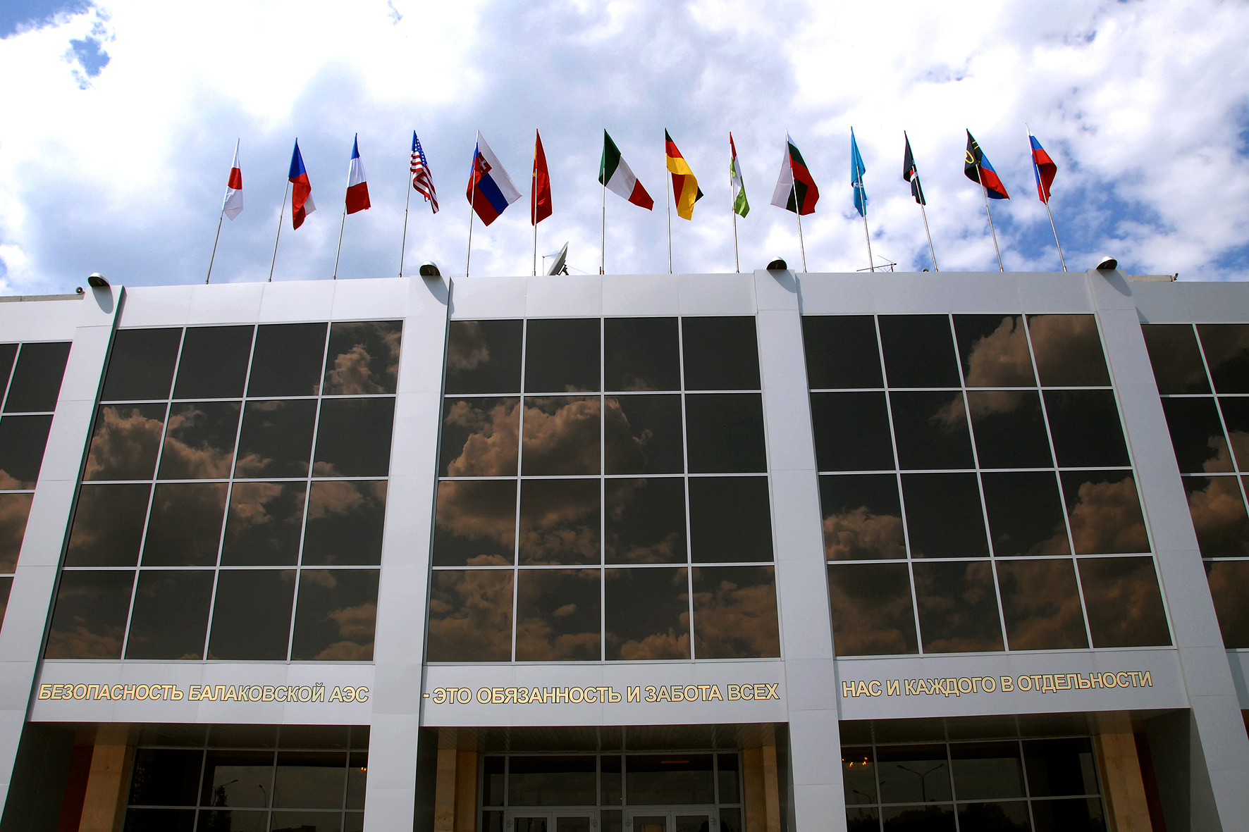 Headquarters Balakovo NPP